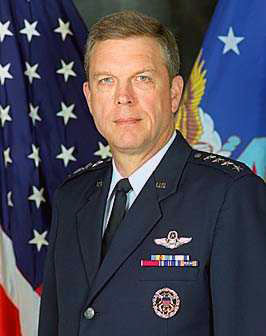 General Patrick K. Gamble from [1]